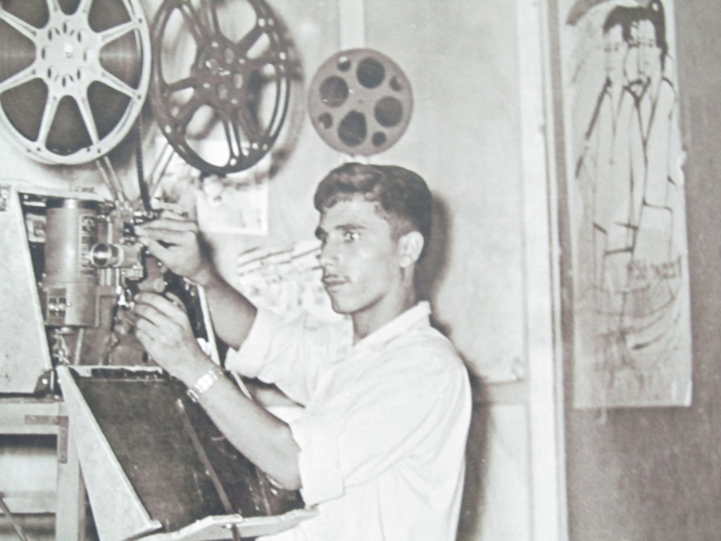 Landscape view, Mass Media in Israel